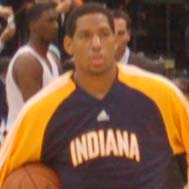 Danny Granger in October 2009